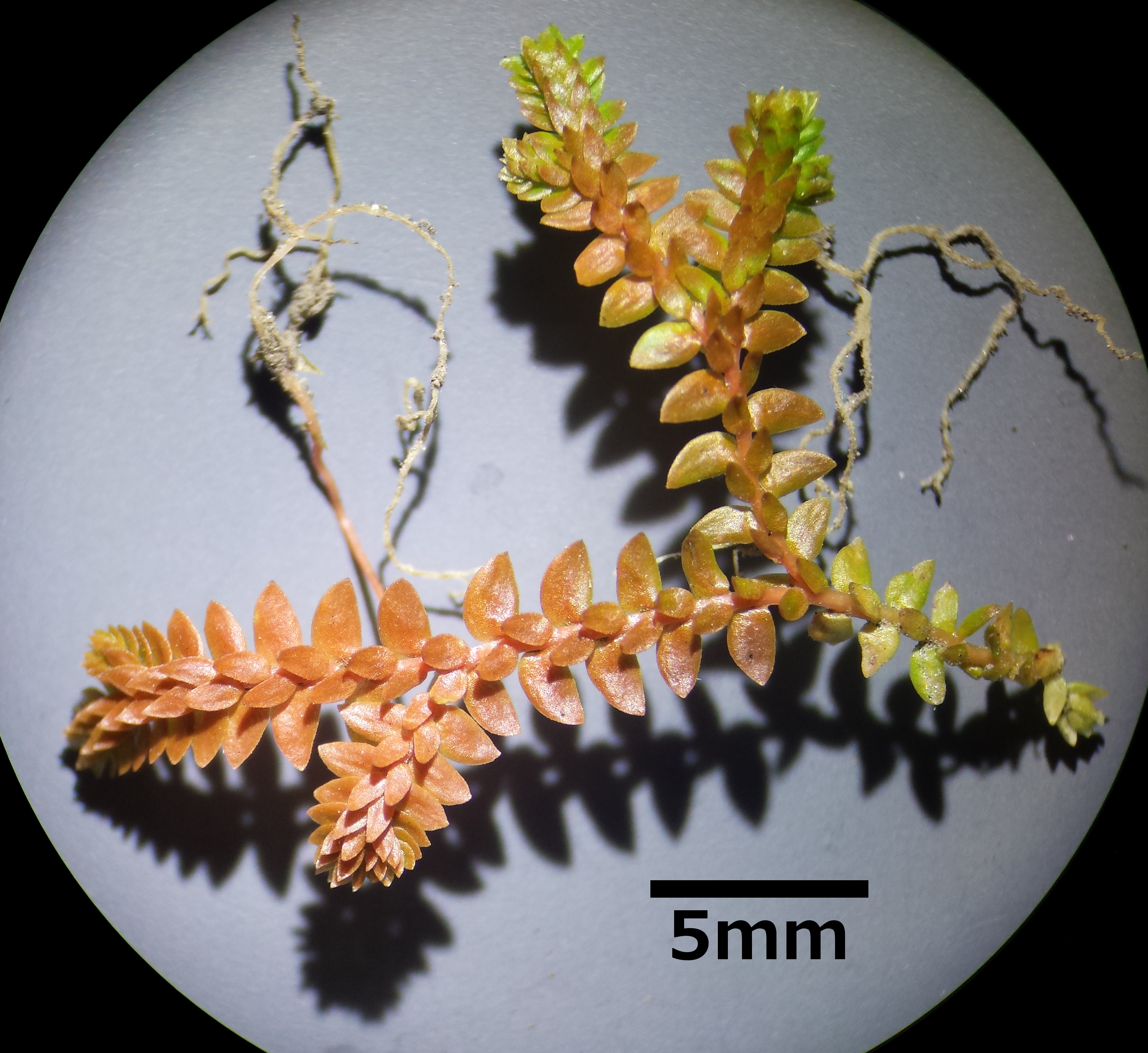 Habitus Taxon: Selaginella helvetica (sensu Fischer et al. EfÖLS 2008 ISBN 978-3-85474-187-9; det. M. A. Fischer 2014-03-22) Location: Blankhaufen, riparian forest near Traismauer, district Tulln, Lower Austria - ca. 190 m a.s.l. Habitat: dry grassland within riparian forest